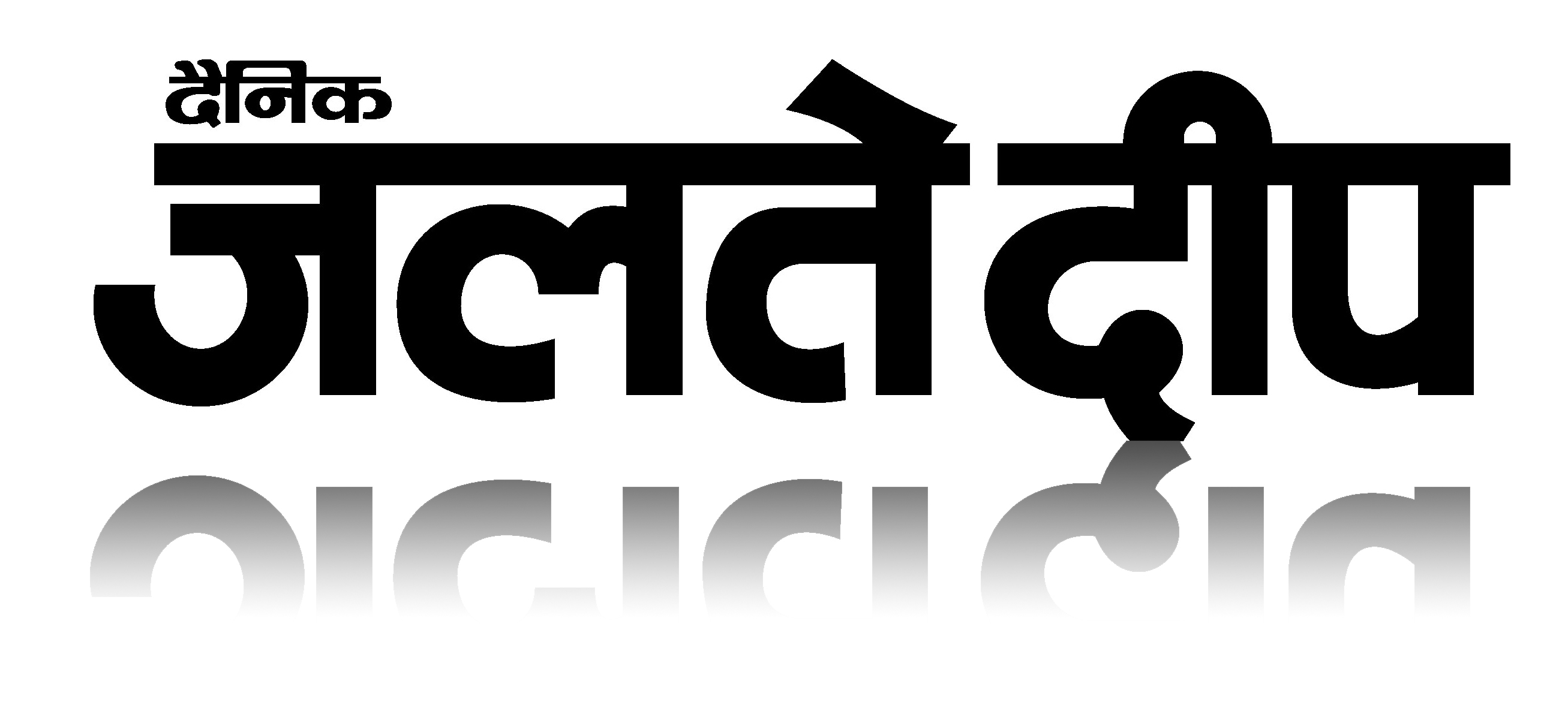 Famous Daily Newspaper of Rajasthan